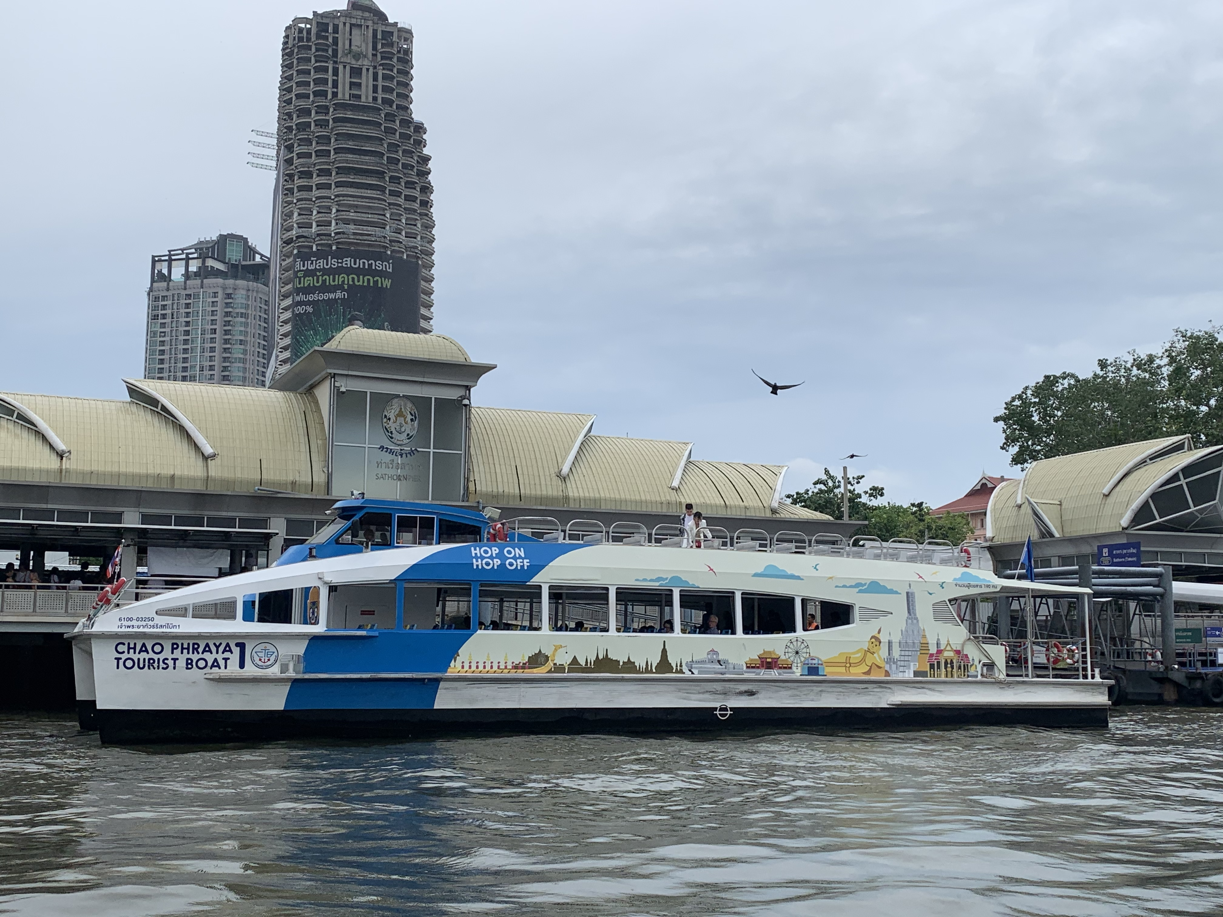 Sathorn Pier with a 'Hop on hop off' ferry arriving